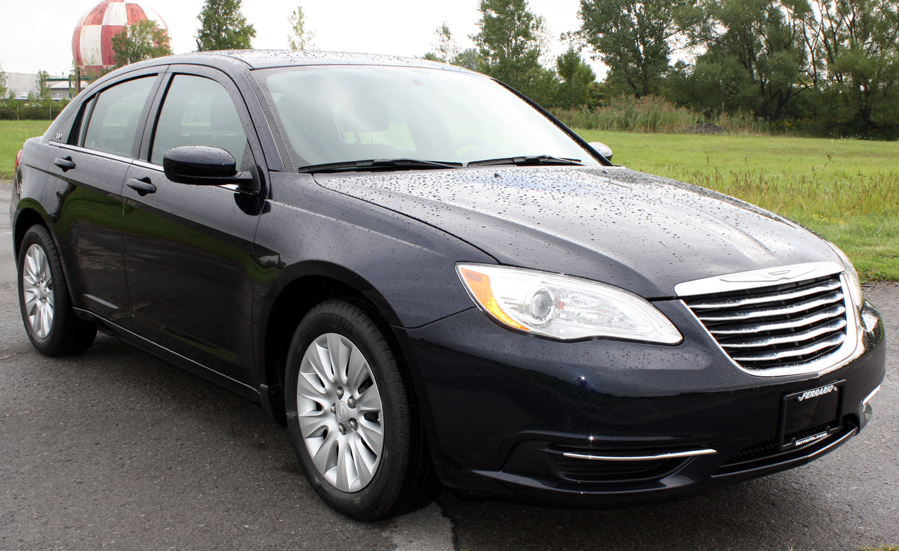 2012 Chrysler 200 photographed in USA.